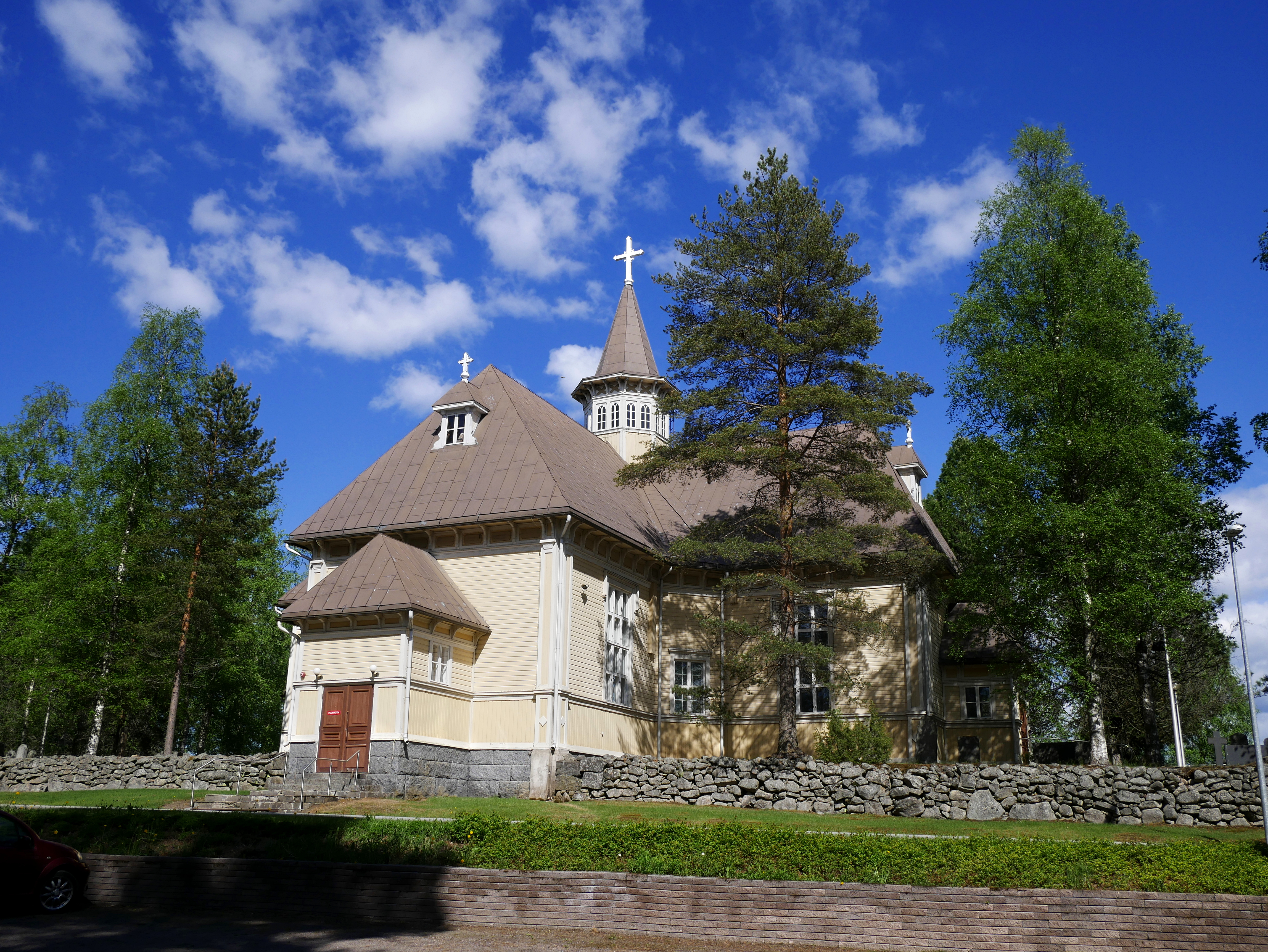 Töysä Church.